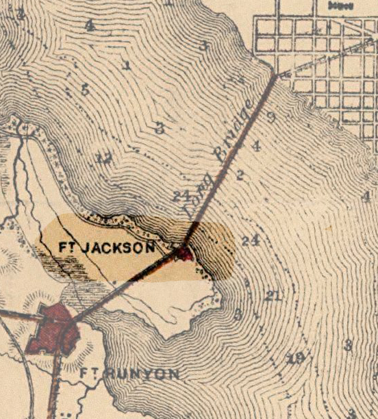 Crop of an 1865 U.S. War Department map of the defenses of Washington, D.C. Crop focuses on Fort Jackson and the Long Bridge.